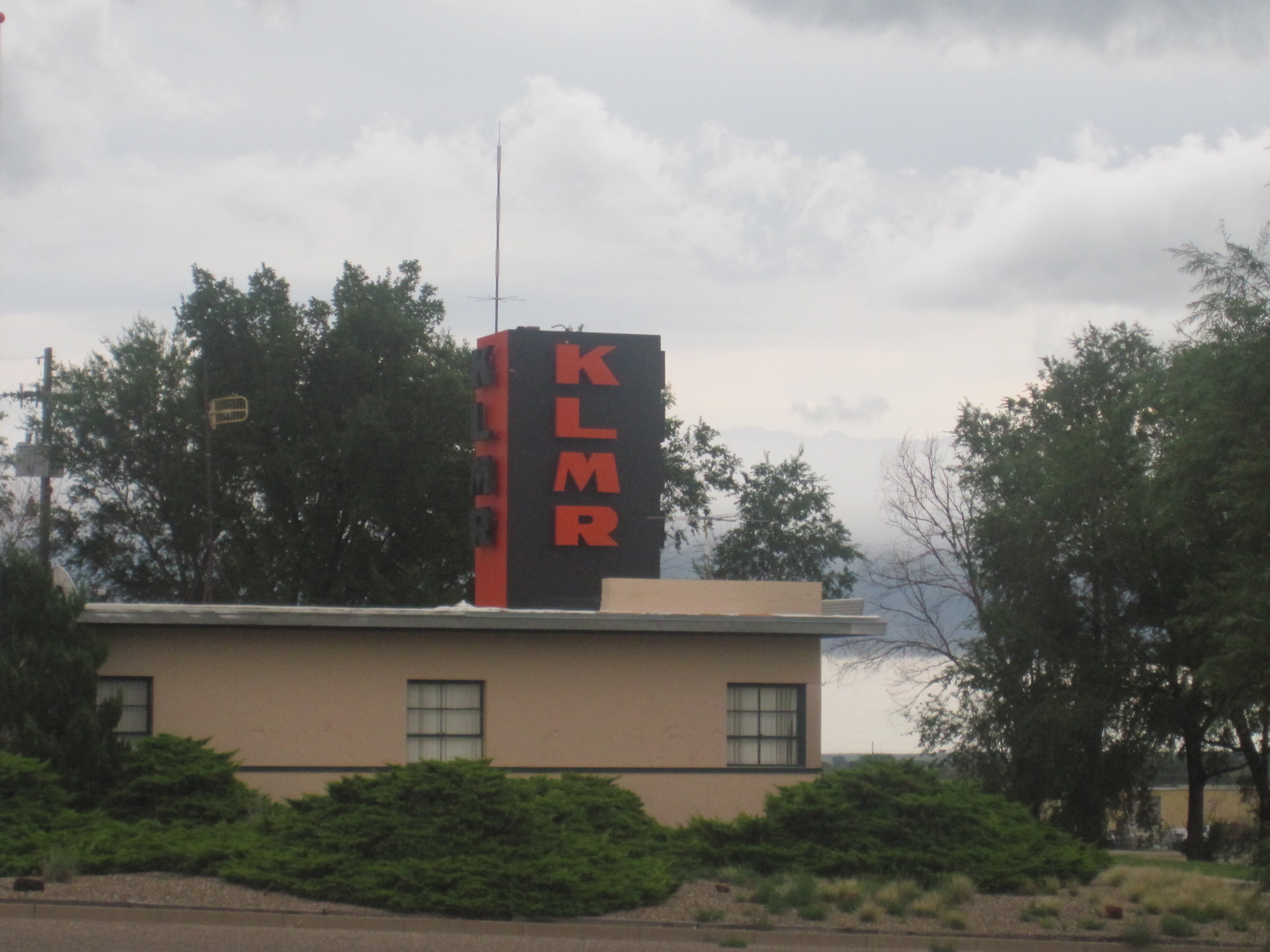 I took photo with Canon camera in Lamar, CO.